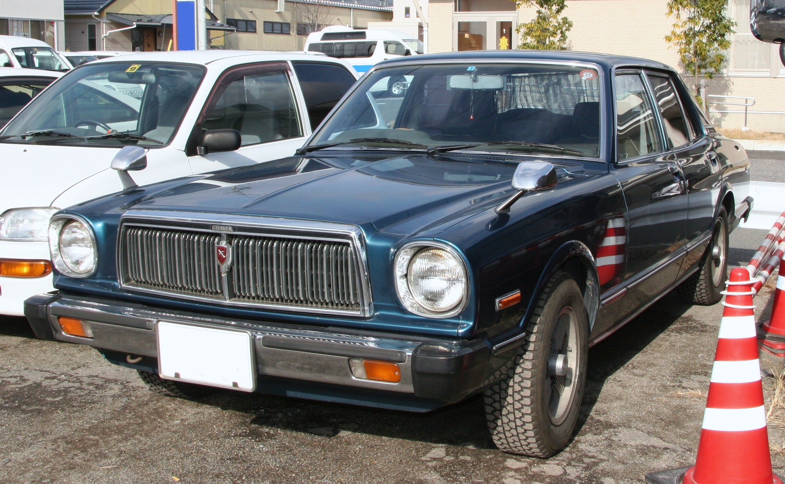 Toyota Chaser